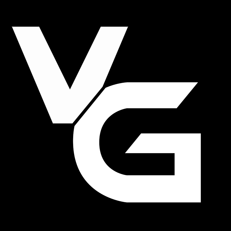 The official logo for the YouTube channel VanossGaming.